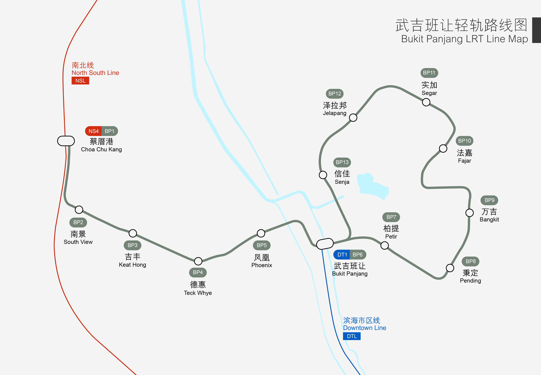 Singapore Bukit Panjang LRT Line Map